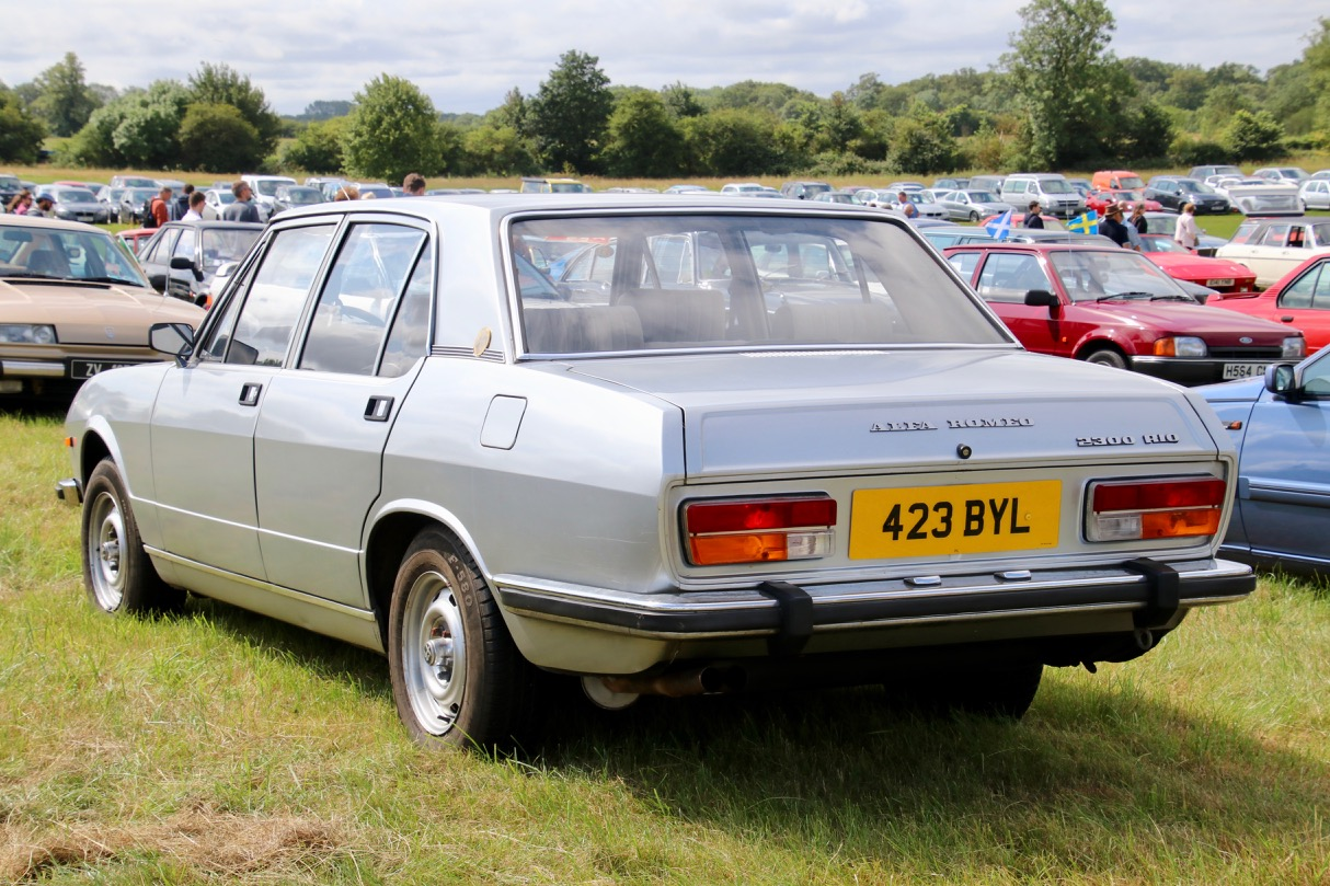 Alfa Romeo 2300 Rio taken at the 2019 Festival of the Unexceptional in Claydon House, Buckinghamshire